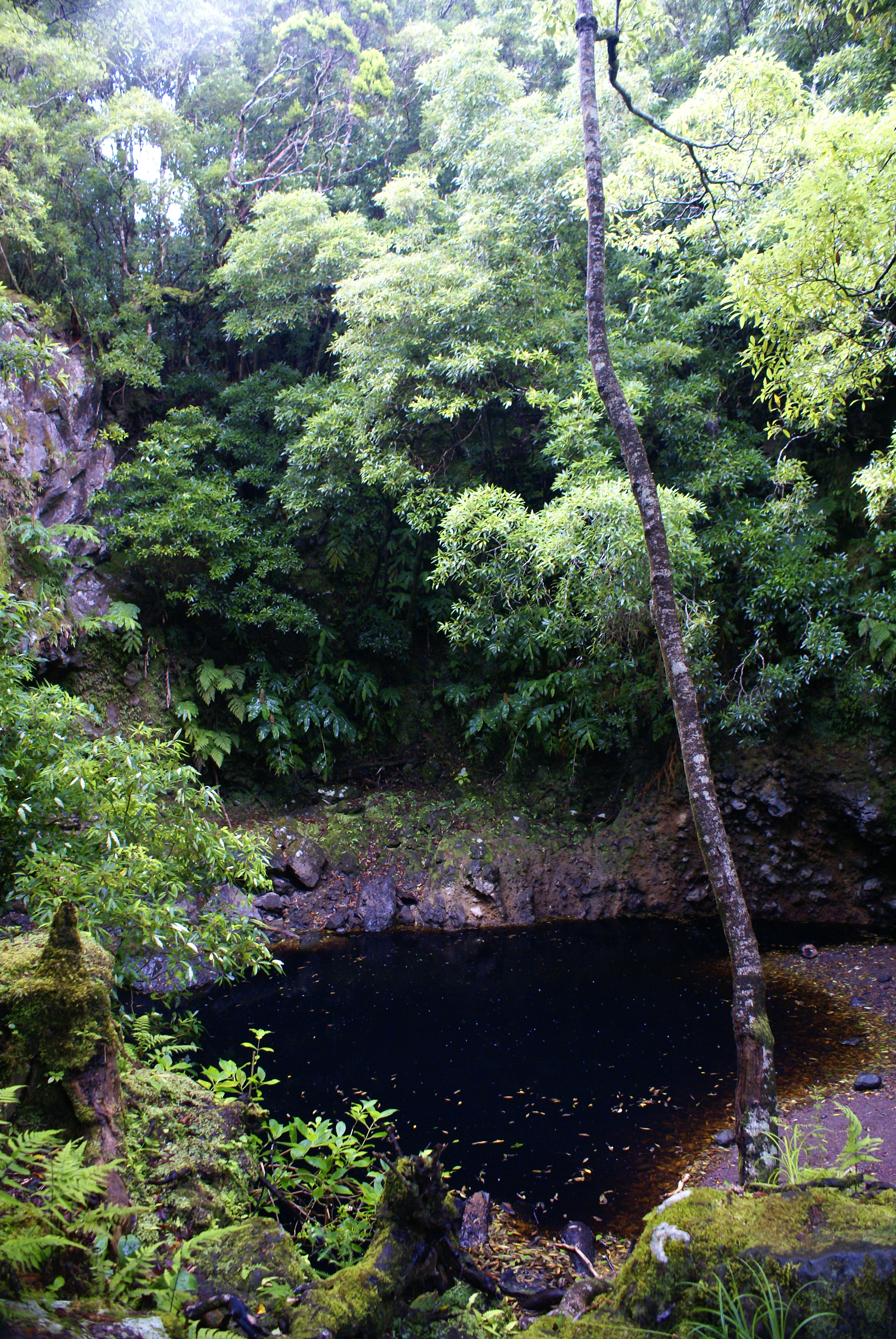 Poça das Asas, 2 concelho da Horta, ilha do Faial, Açores, Portugal